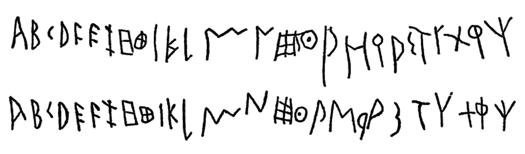 early etruscan alphabets from Formello